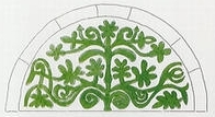 Timpanon of the Monastery south gate - from Szaniszló Bérczi's Eurasia drawing collection ser. The church building is a Hungarian Heritage.